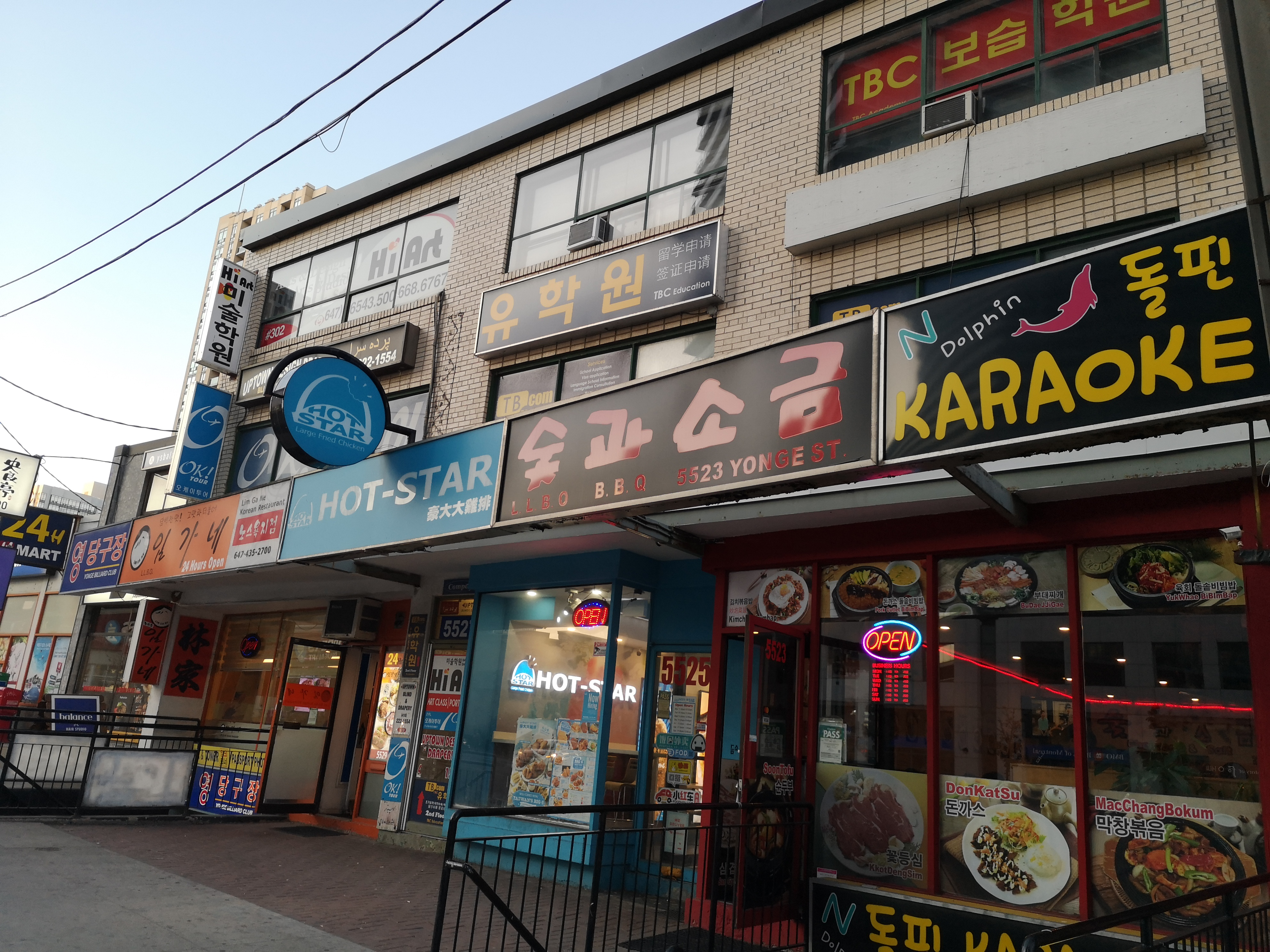 Businesses along Yonge Street near Olive Avenue, in Willowdale, a neighbourhood of North York, Toronto.